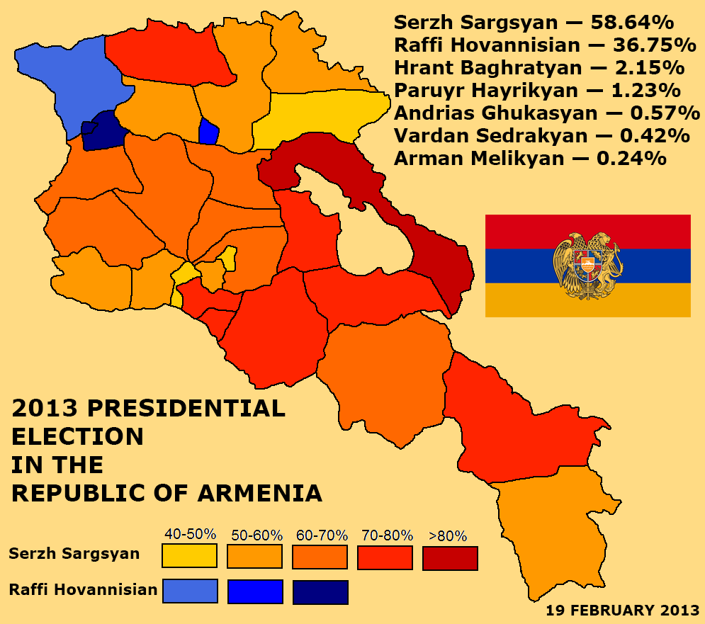 Armenian presidential election, 2013 map